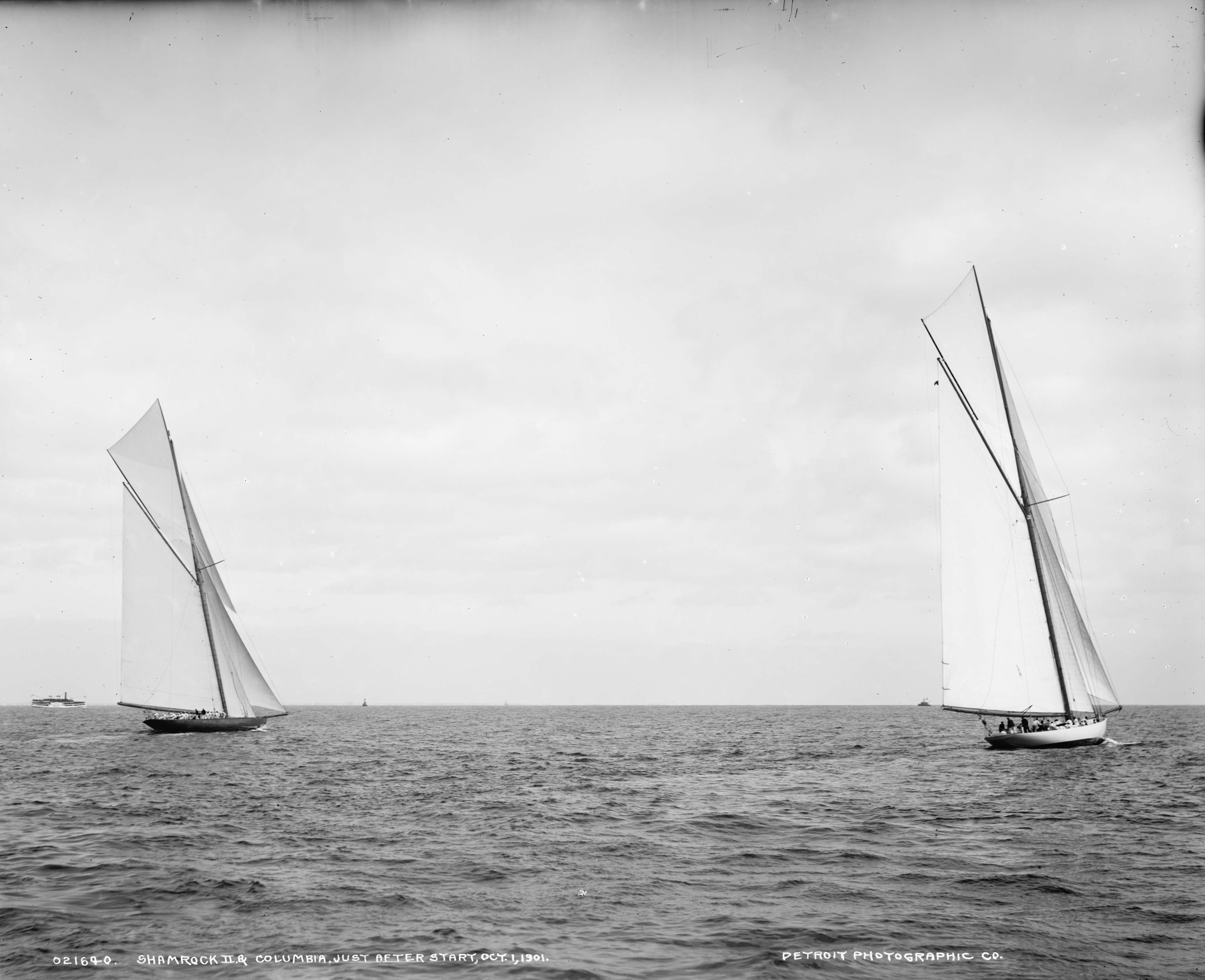 the Shamrock II & Columbia in the 1901 America's Cup just after the start, Oct. 1, 1901